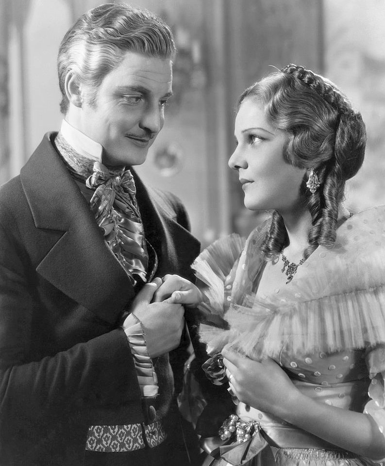 Promotional photograph for the film The Count of Monte Cristo starring Robert Donat and Elissa Landi.